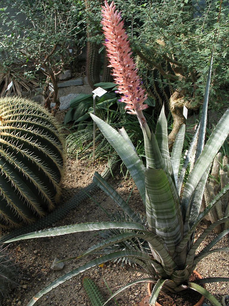 Aechmea phanerophlebia, in cultivation at the Botanical Garden of Heidelberg, Germany.